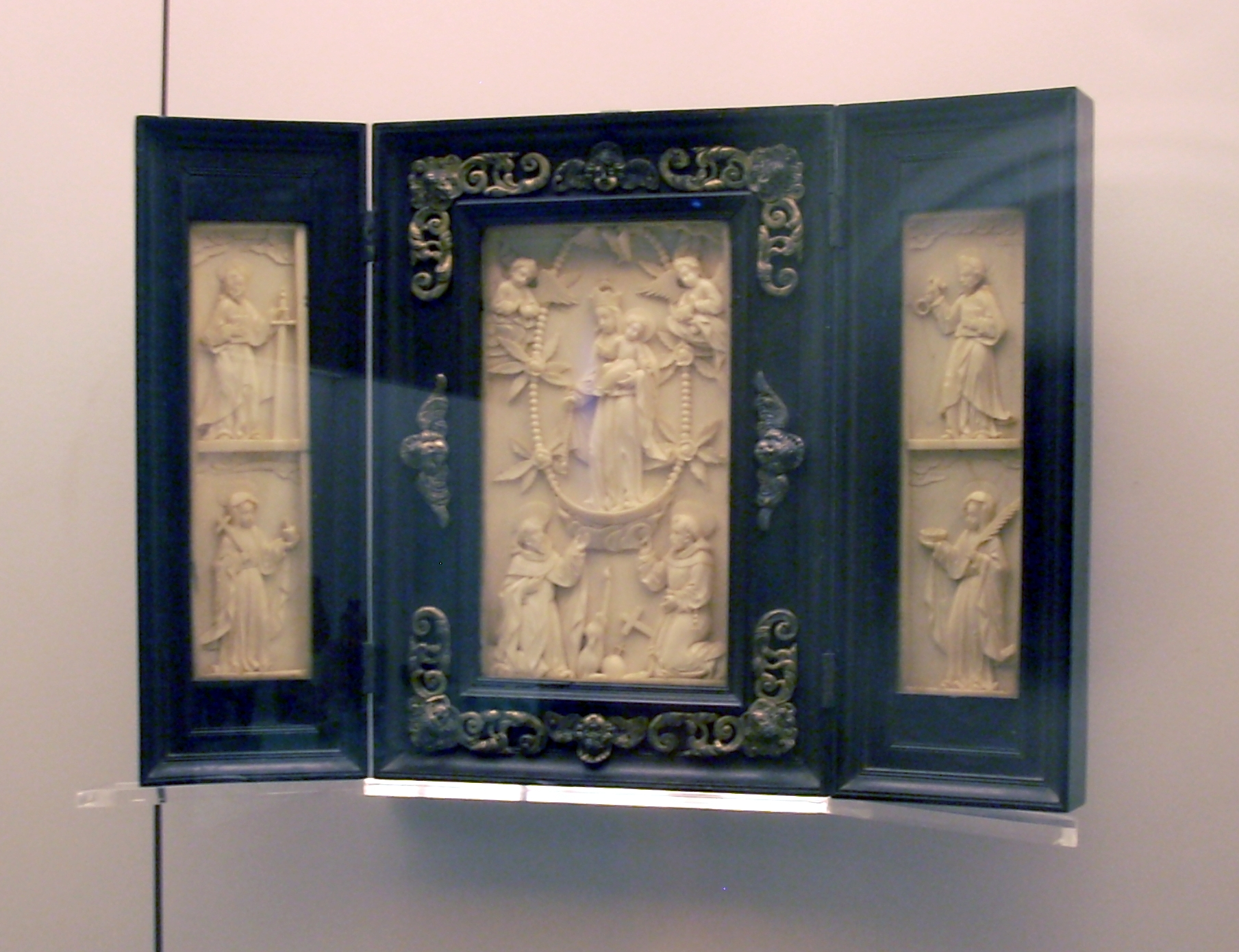 Portable triptych from the Philippines in the Museum of the Americas in Madrid. Depicting the Virgin of the Rosary with St. Francis and St. Dominic, flanked by images of the apostles St. Peter and St. Paul and St. Catherine of Siena and St. Lucy. Ivory, silver and wood. 17th century. Item 12.251.